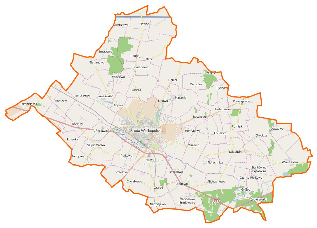 Map of Gmina Środa Wielkopolska, Poland This map of Środa Wielkopolska (gmina) was created from OpenStreetMap project data, collected by the community. This map may be incomplete, and may contain errors. Don't rely solely on it for navigation. Border coordinates52.322317.1054←↕→17.478552.1581